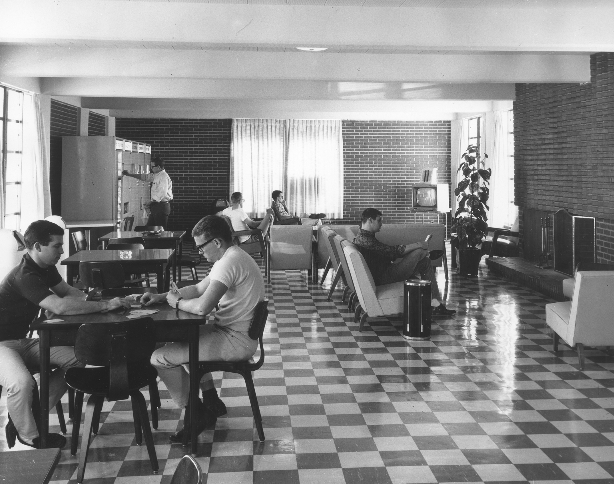 Arlington State College, Pachl Hall men's dormitory lobby with checkerboard patterned floor, circa 1950s or early 1960s.